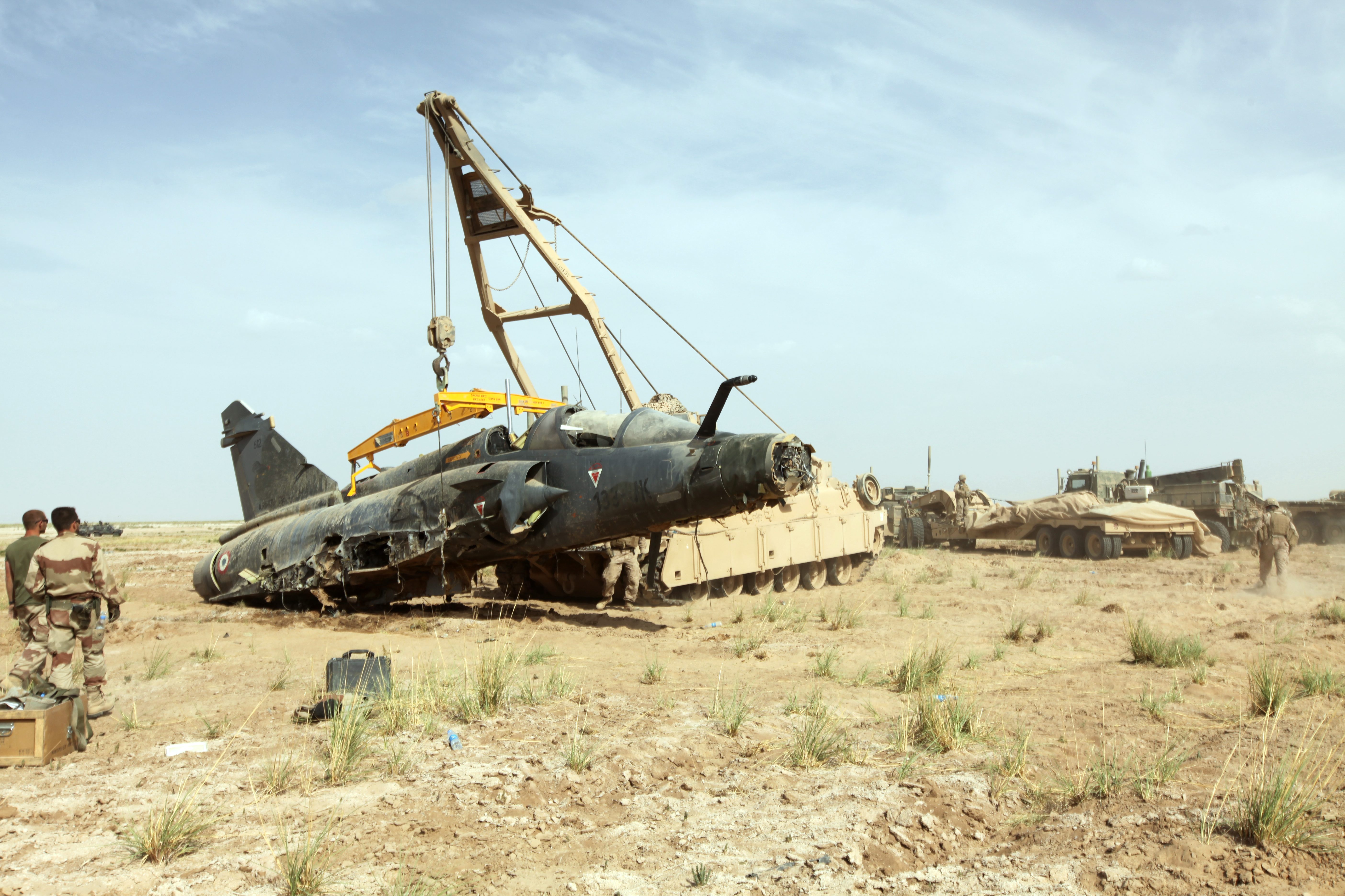 An M88 Recovery Vehicle hoists the body of a downed French Mirage-2000D aircraft off Nancy – Ochey Air Base during a recovery mission May 27, 2011. U.S., French and Italian forces conducted an 130 km (81-mile) combat logistics patrol from Regional Command Southwest to retrieve the French jet without incident in the Bakwa district of Regional Command West in Afghanistan May 27, 2011. Combat Logistics Battalion 8, 2nd Marine Logistics Group (Forward) took the lead on the mission. In direct support of the battalion were teams from 2nd Explosive Ordnance Disposal Company, 2nd MLG (Fwd.), along with the Army's 129th Combat Sustainment Support Battalion providing heavy equipment transport capabilities, an Aircraft Recovery Fire Fighting team from Marine Wing Support Squadron 272, 2nd Marine Aircraft Wing, a French aircraft recovery team and an Italian team escorting the convoy from the RC boundary to the crash site where they continued to provide security for the duration of the operation in support of the International Security Assistance Force.